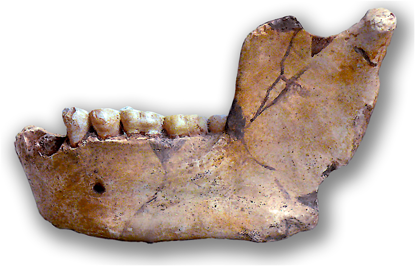 Ternifine mandible (Ternifire III), discovered by Camille Arambourg in Ternifine (Algerie), and identified as Atlanthopus mauritanicus, a variety of Homo heidelbergensis or Homo erectus.